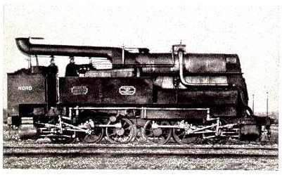 CC duplex locomotive built by Jules Petiet in 1863 for the French Northern Railway (taken between 1863 and 1874)